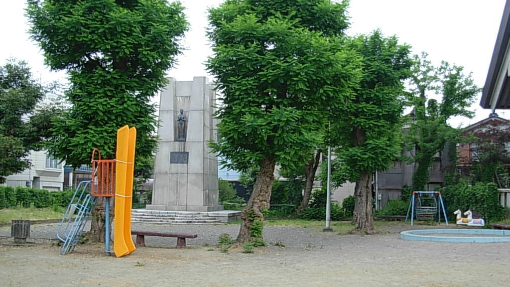 Hiragata Park, Nagaoka, Niigata, Japan.